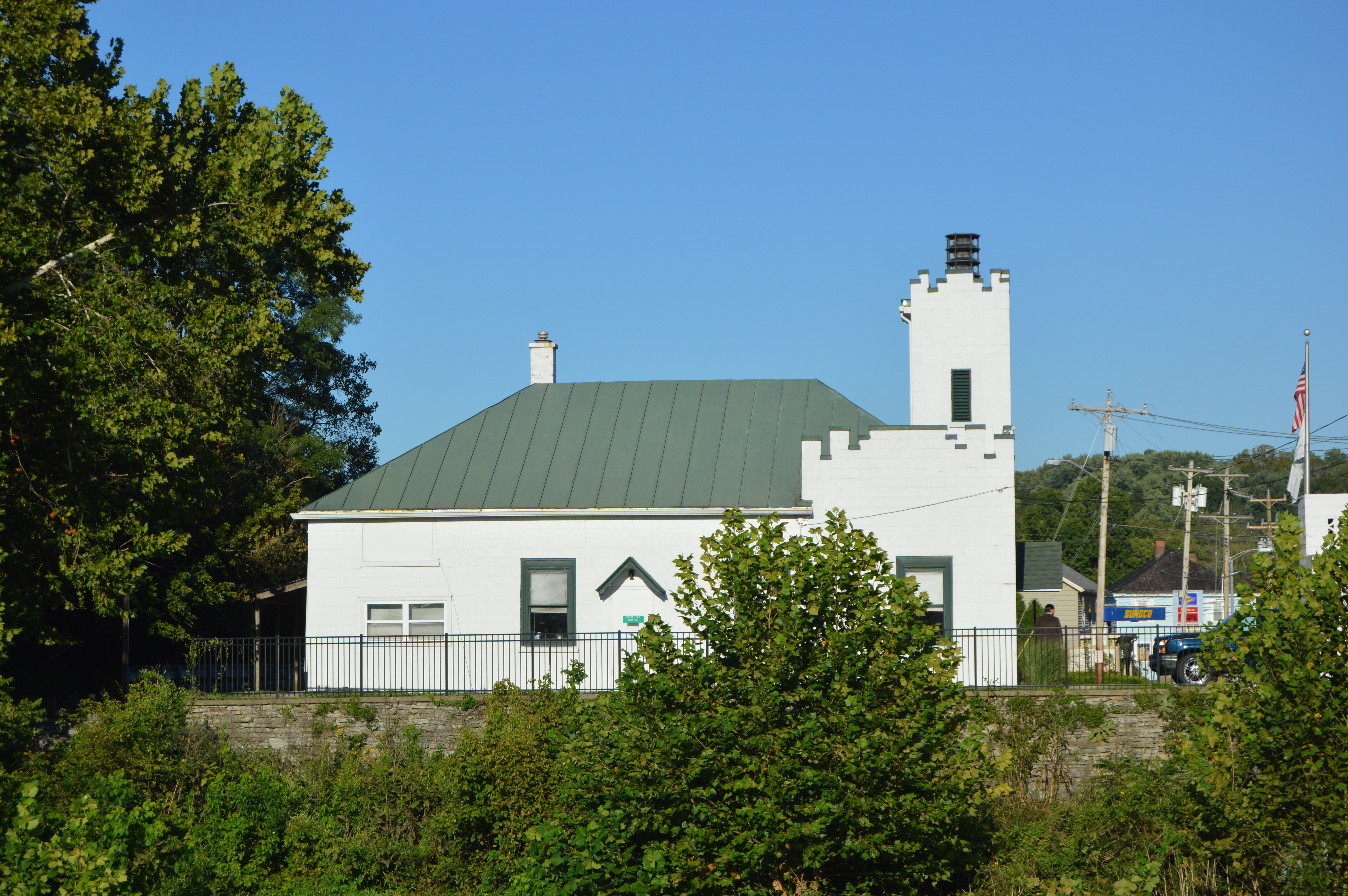 Western side of the Morrow village hall, located at 150 E. Pike Street (U.S. Route 22) in Morrow, Ohio, United States.